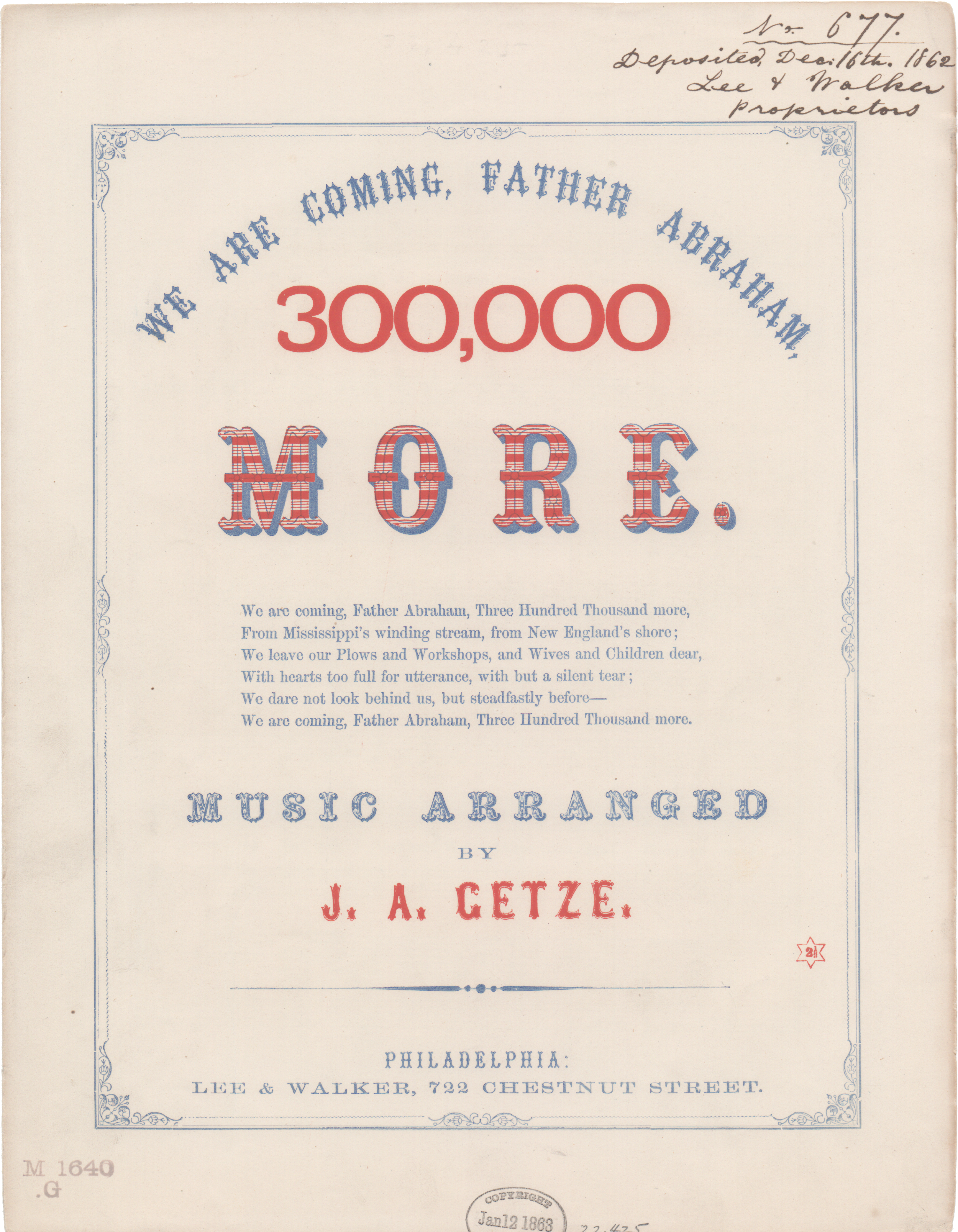 The cover of the sheet music of "We Are Coming, Father Abra'am", as arranged by J.A. Getze.